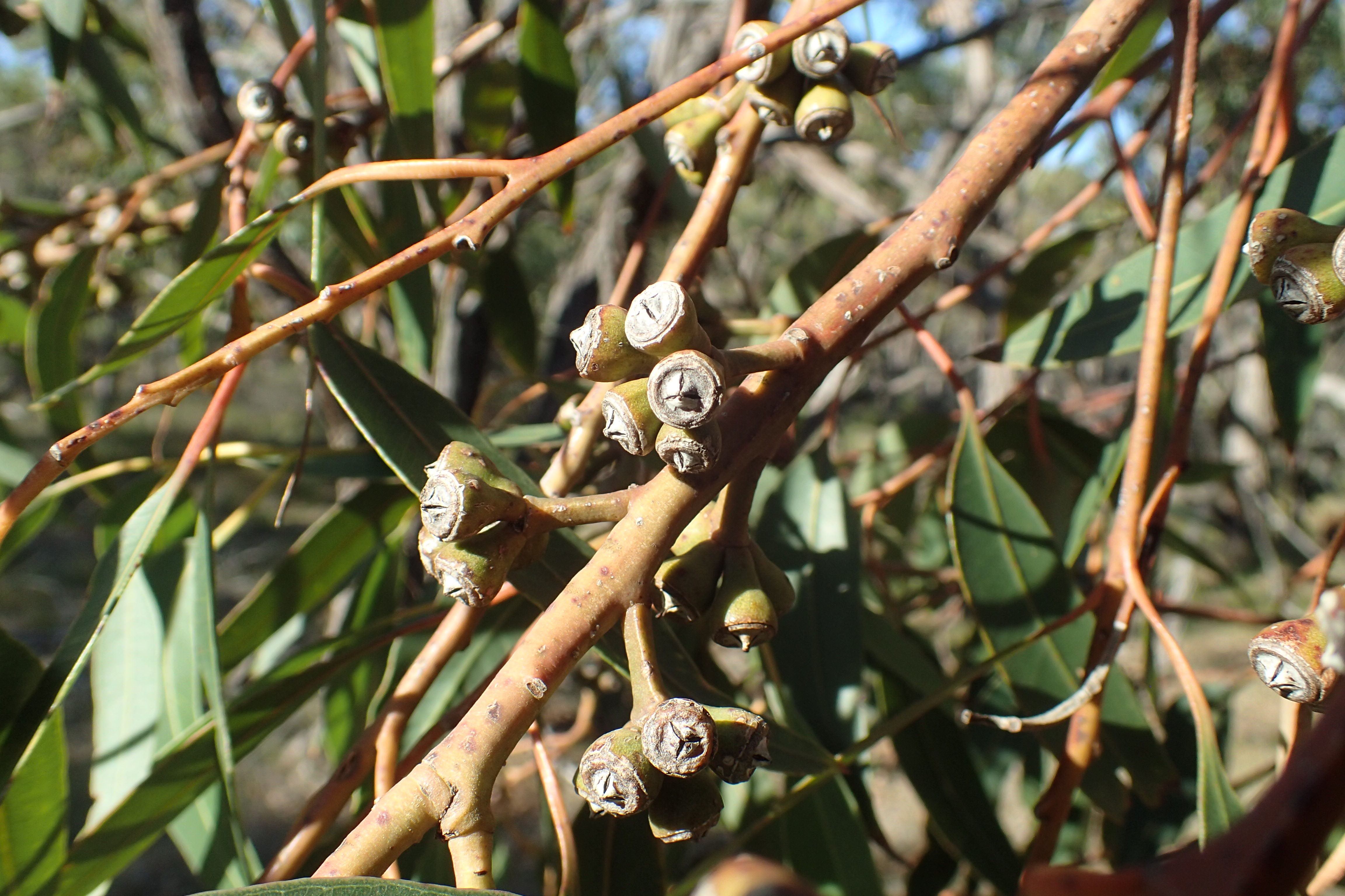 Fruit of Eucalyptus resinifera in Helms Arboretum, near Esperance